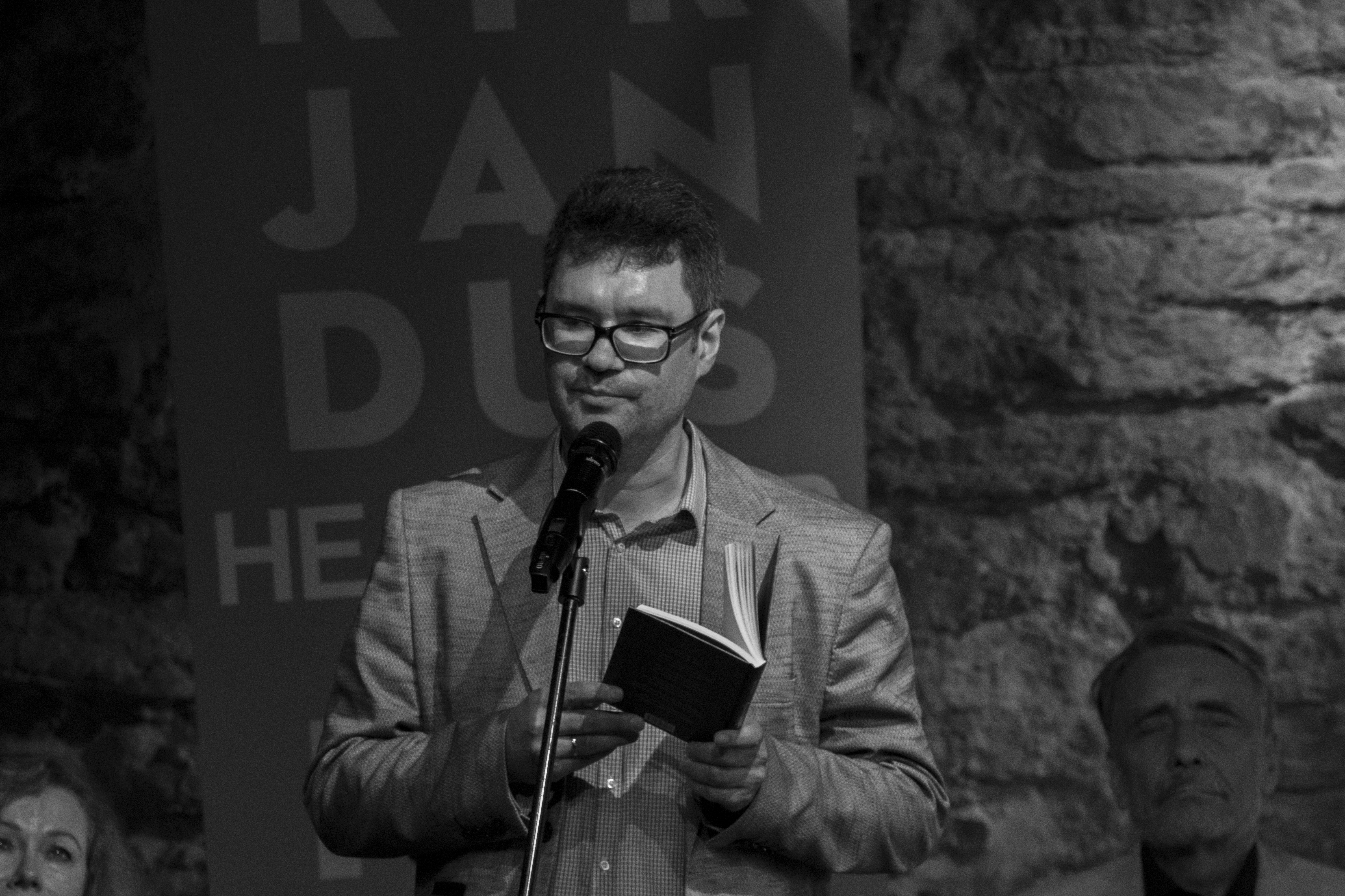 Estonian writer Igor Kotjuh in 2019, at HeadRead literary festival in Tallinn